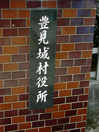 Tomigusuku "Son-yakusho(Village Hall)" Plate